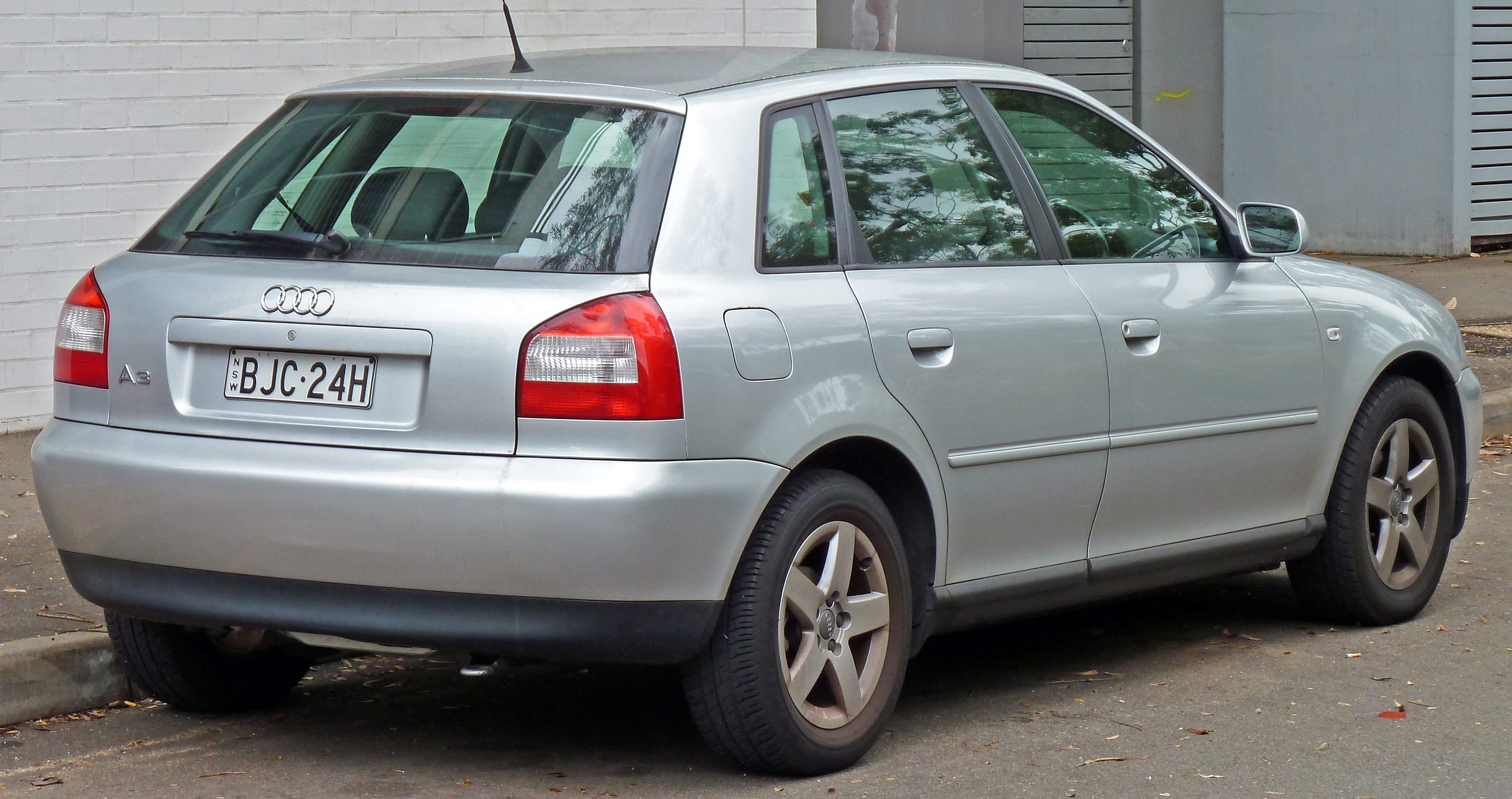 2002 Audi A3 (8L) 1.6 5-door hatchback. Photographed in Zetland, New South Wales, Australia.